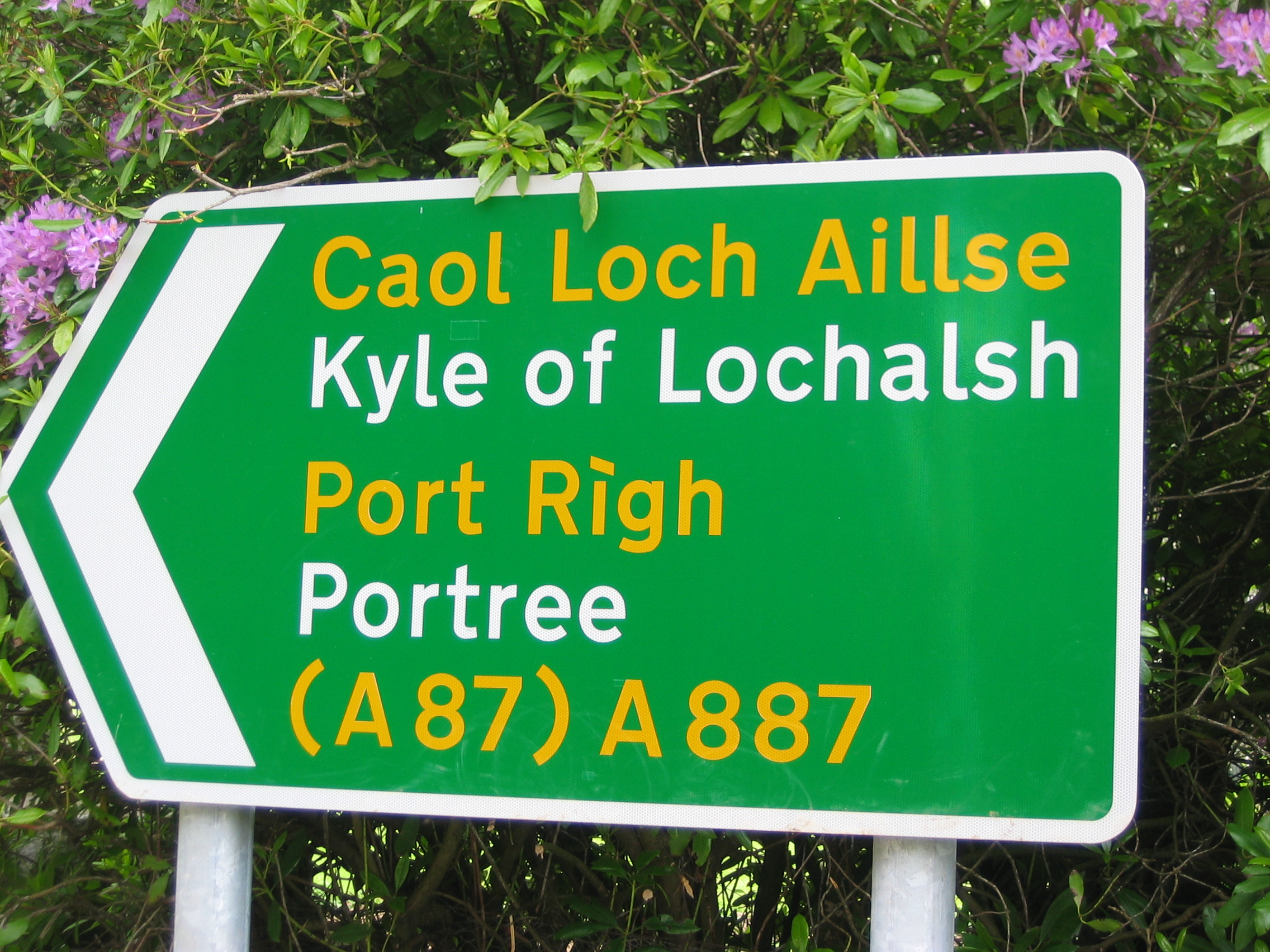 Bilingual (Gaelic/English) road sign at Invermoriston, Scotland